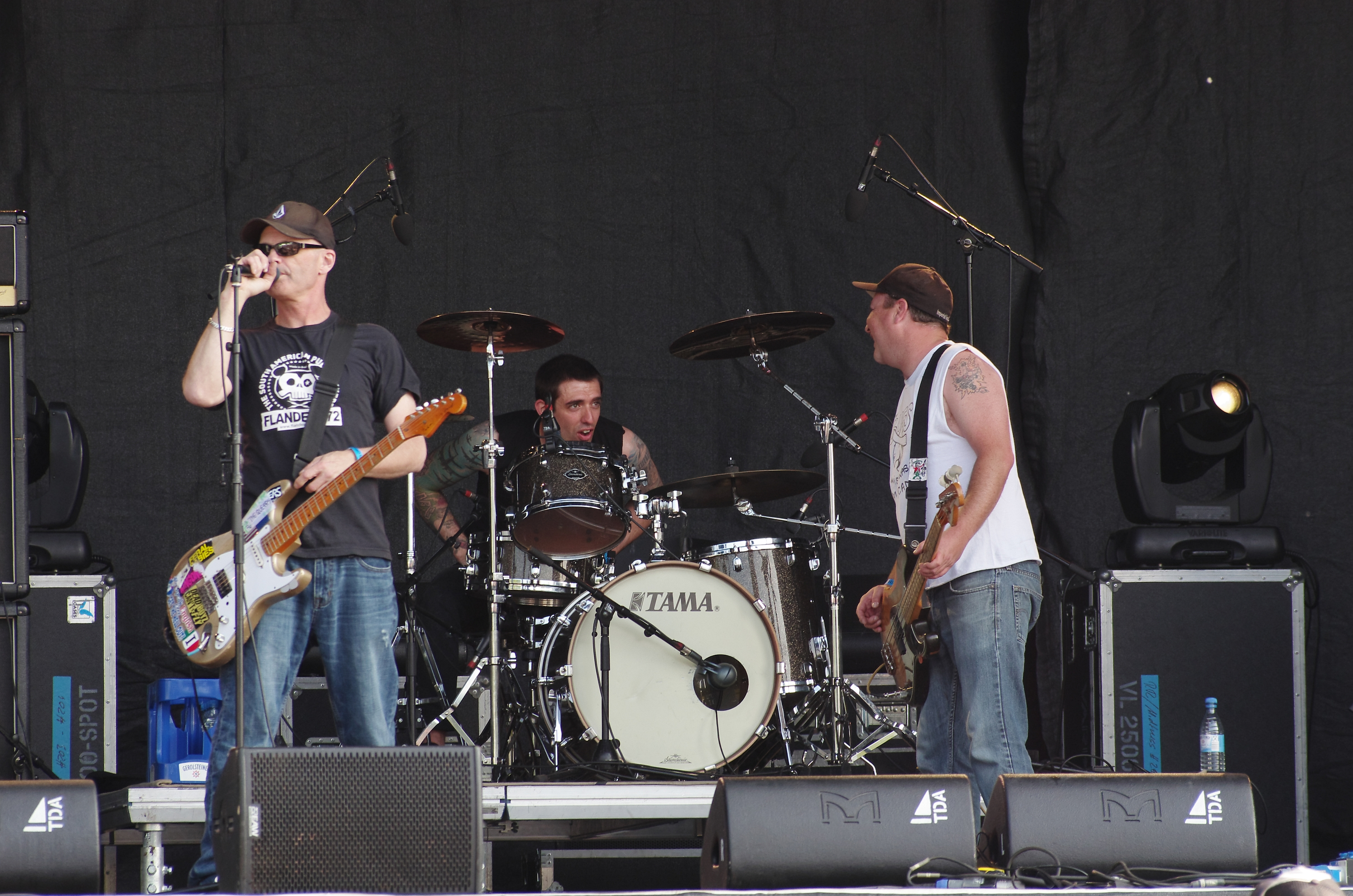 The Queers at punk rock festival Ruhrpott Rodeo 2013. Members: Joe Queer - Guitar/Vocals; Dangerous Dave - Bass/Vocals; Lurch Nobody - Drums.